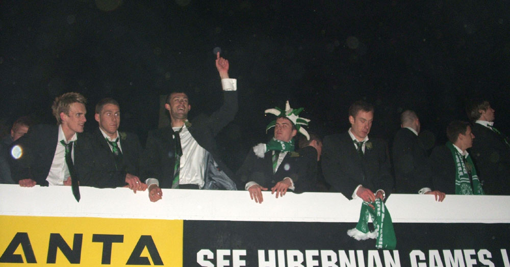 Taken and donated by User:Guinnog